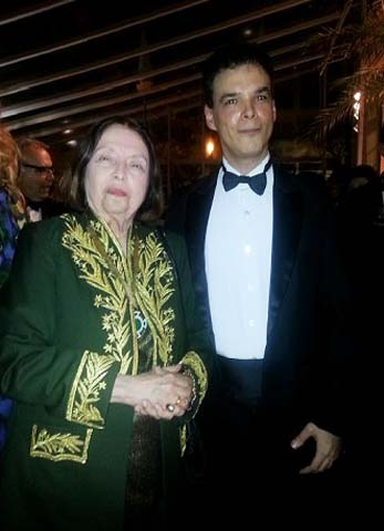 NÉLIDA PIÑON E MARCELO MORAES CAETANO